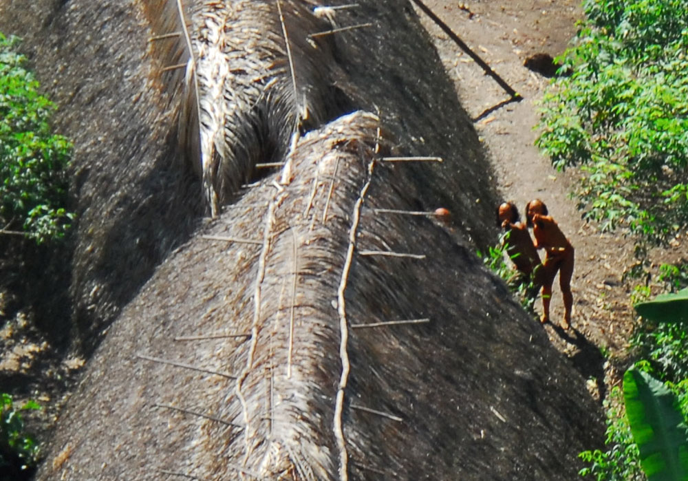 Uncontacted indigenous tribe in the Brazilian state of Acre.